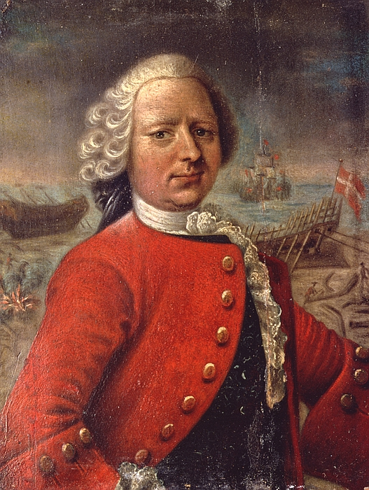 Portrait of Andreas Bjørn